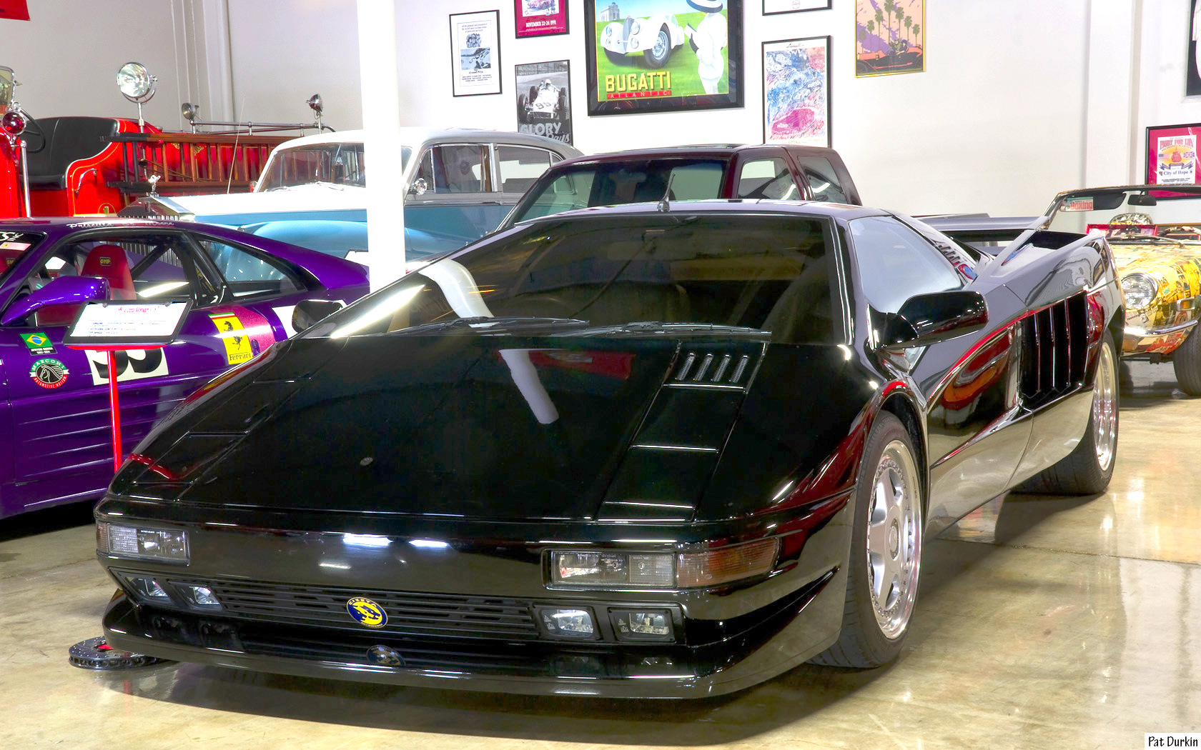 Cizeta-Moroder V16T